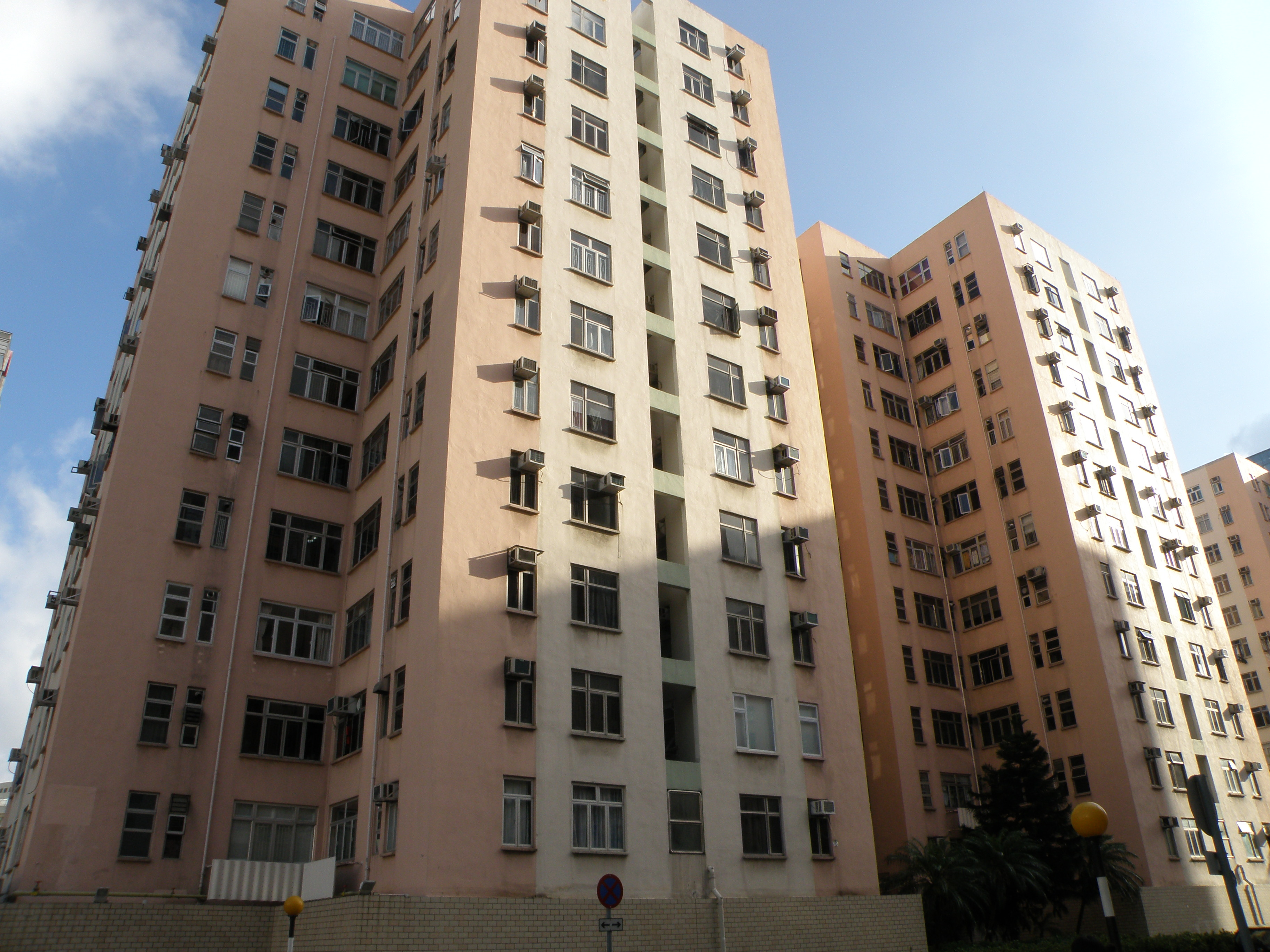 Telford Gardens Block C1 in Kowloon Bay, Hong Kong.